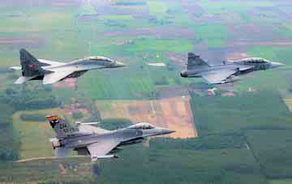 A 178th Fighter Wing F-16 Fighting Falcon flies alongside a Hungarian air force MiG-29 Fulcrum and JAS-39 Gripen May 5 in Kecskemet, Hungary.